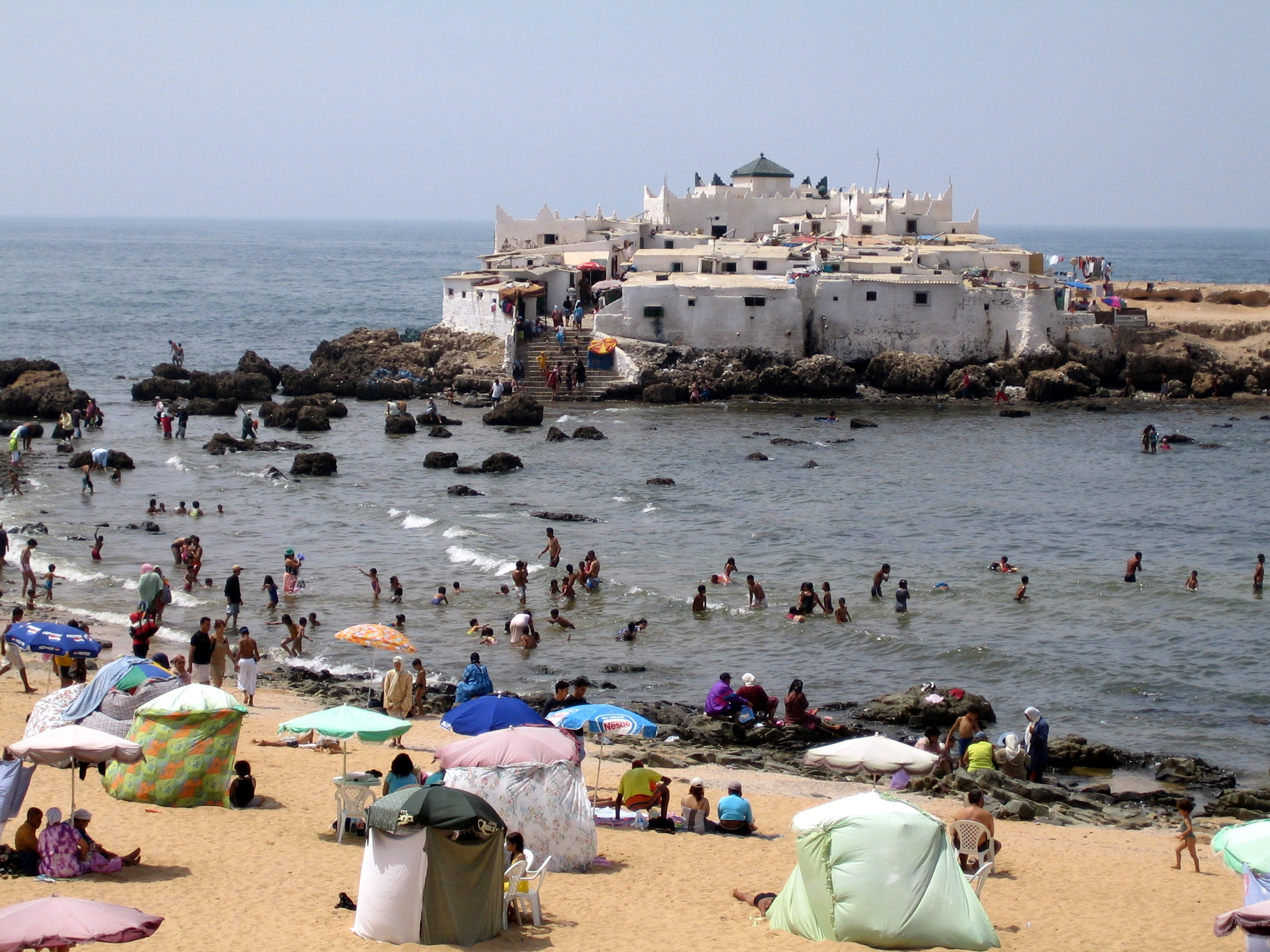 This is a FREE photo! Yes, all the photos in my gallery are free! :) You can download it at full resolution (check the “all sizes” option) and do whatever you want with it: share it, adapt it and/or combine it with other material and distribute the resulting works. Please give photo credits to “Carlos ZGZ” and put a link to this page. I’ll be very happy to know that this photo has been useful to someone, so don’t hesitate to tell me about your use (and I will place here a link to it if you wish)! __ ¡Esta es una foto LIBRE! ¡Sí, todas las fotos de mi galería son libres! :) Puedes descargártela en plena resolución (usa la opción “all sizes”) y hacer lo que quieras con ella: compartirla tal cual, modificarla a tu gusto y/o combinarla con otro material y distribuir el resultado. Por favor, si utilizas esta foto dale el crédito a “Carlos ZGZ” y coloca un enlace a esta página Me hace mucha ilusión saber que una de mis fotos le ha servido a alguien. Así que si es tu caso, ¡no dudes en decírmelo! (y si quieres, pondré un enlace a tu proyecto aquí).